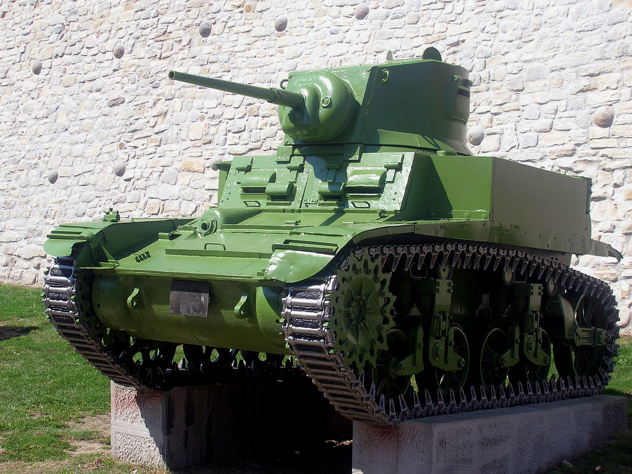 M3A1 Stuart, Belgrade Military Museum, Serbia. Author of the picture is user Marko M.